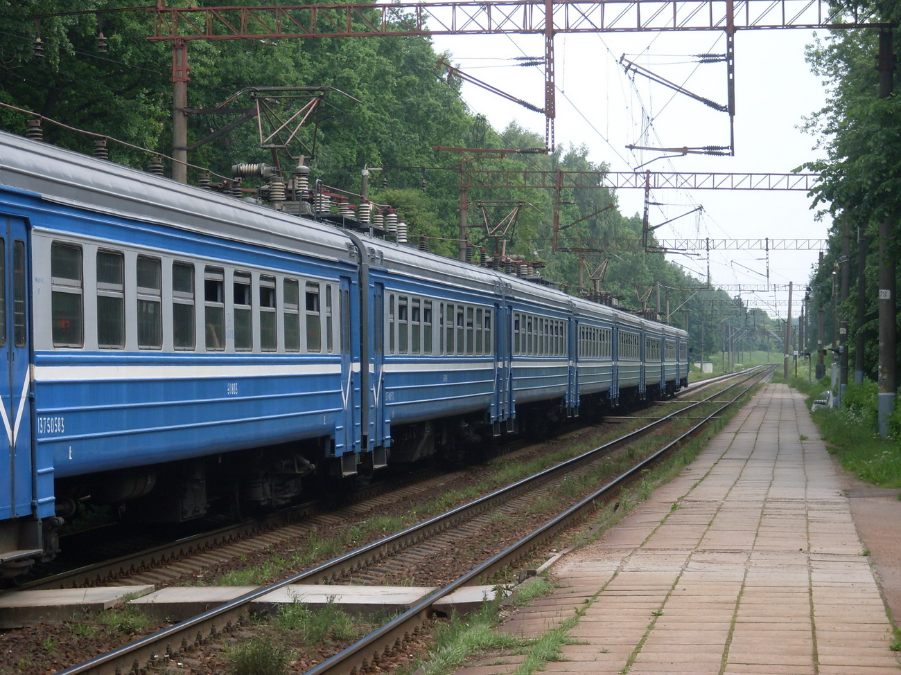 Local train at the Machulischi station (Minsk region, Belarus)